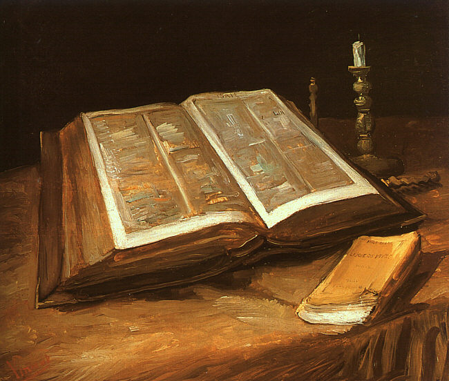 Still life with Bible, by Vincent Van Gogh